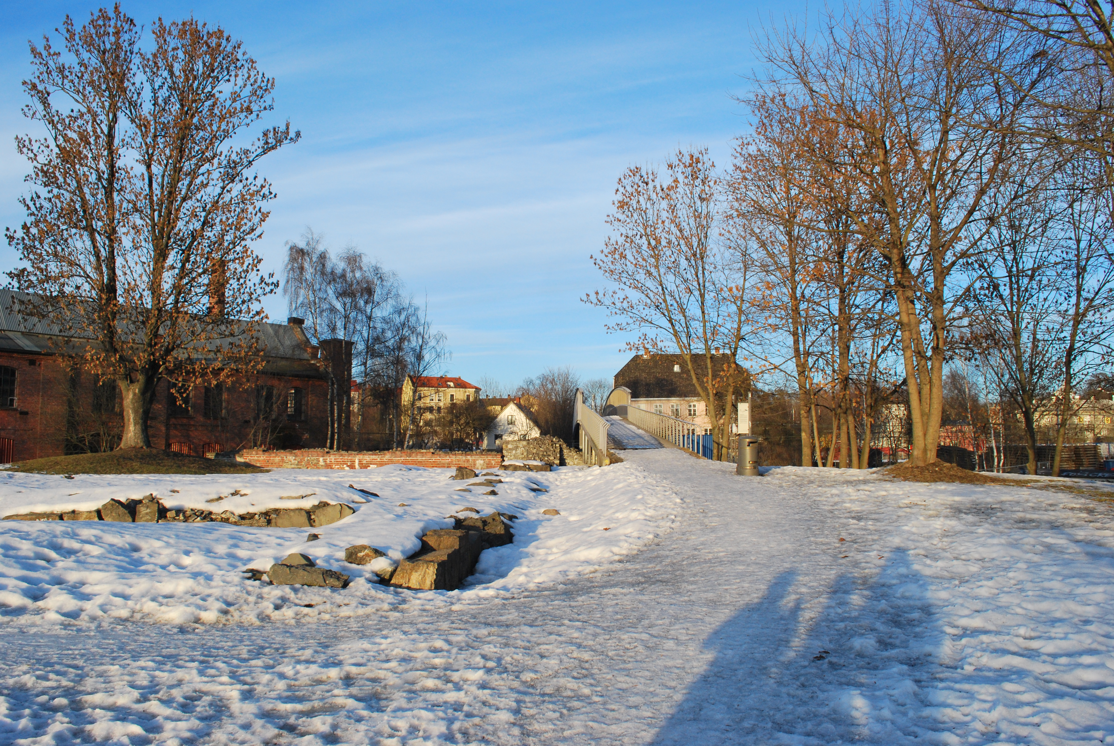 Middelalderparken, Gamlebyen, Oslo, entrance from Østre strete bru, Saxegården i the middle of the picture